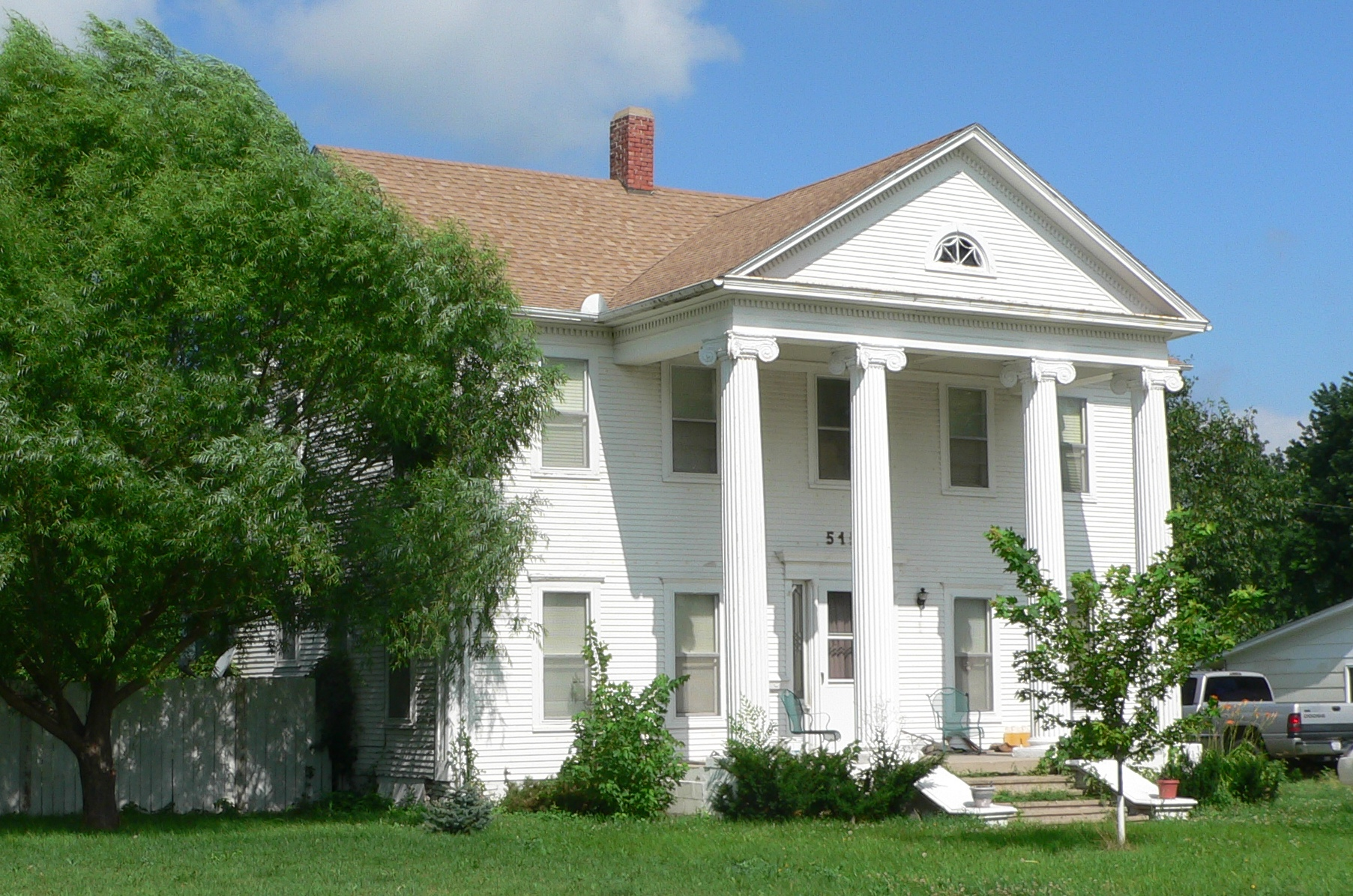 Kinner House at 515 Tibbals in Holdrege, Nebraska; seen from the southeast. The house was built ca. 1903 in Classical Revival style. It is listed in the National Register of Historic Places.